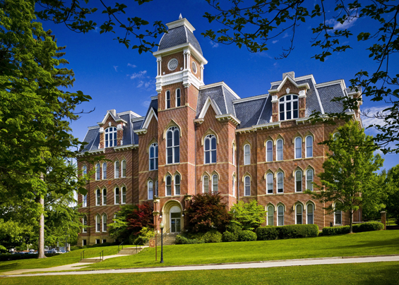 photography- Ed Massery, Massery Photography Inc. 412-344-6129digital ecology– Tom Underiner~Pixel River 412-344-7119